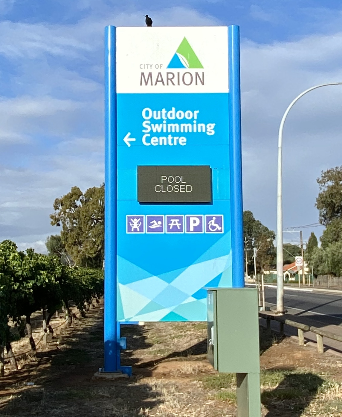 On 22 March, Australian Prime Minister Scott Morrison announced a closure of places of social gathering, including registered and licensed clubs, licensed premises in hotels and bars, entertainment venues, including but not restricted to cinemas, casinos and nightclubs and places of worship, as well as gyms, swimming pools as well as other places of leisure or recreation. These measures were put in place to stop the spread of the COVID-19 global pandemic, which arrived in Australia in the city of Melbourne, Victoria on 25 January 2020.